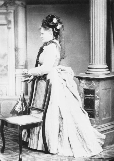 German opera singer Luise Jaide (1842—1914)